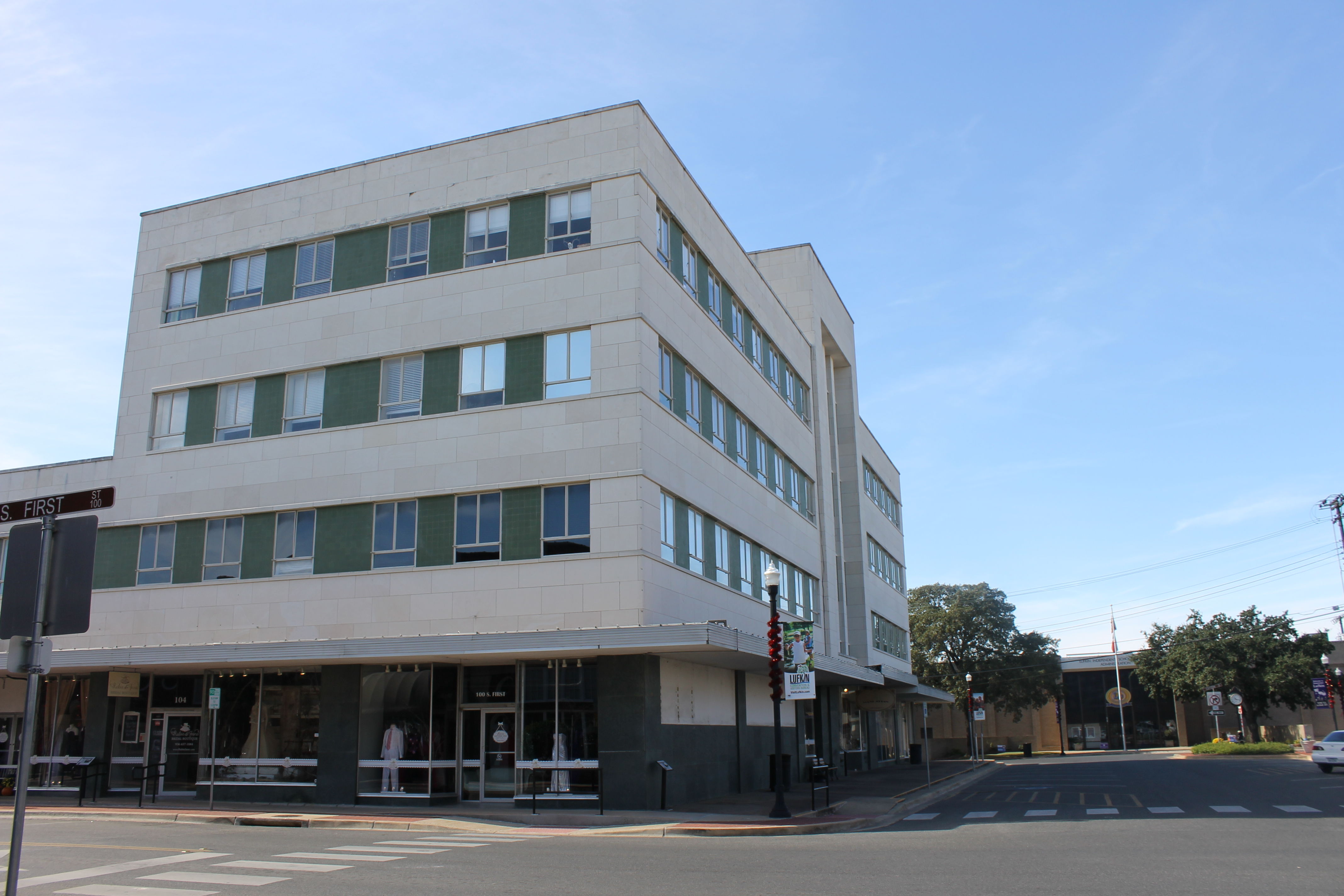 Perry Building in Lufkin, TX